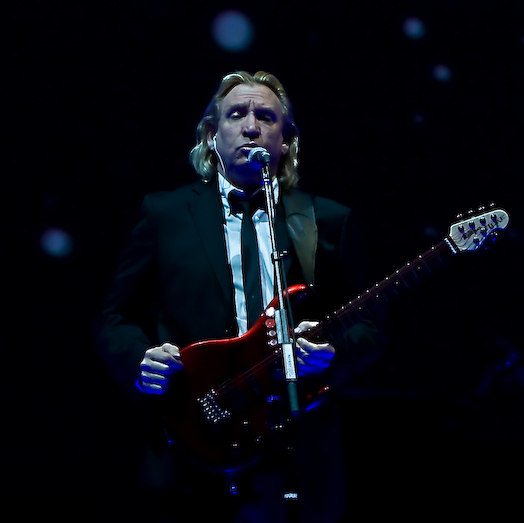 Eagles - Out of Eden Tour - Houston